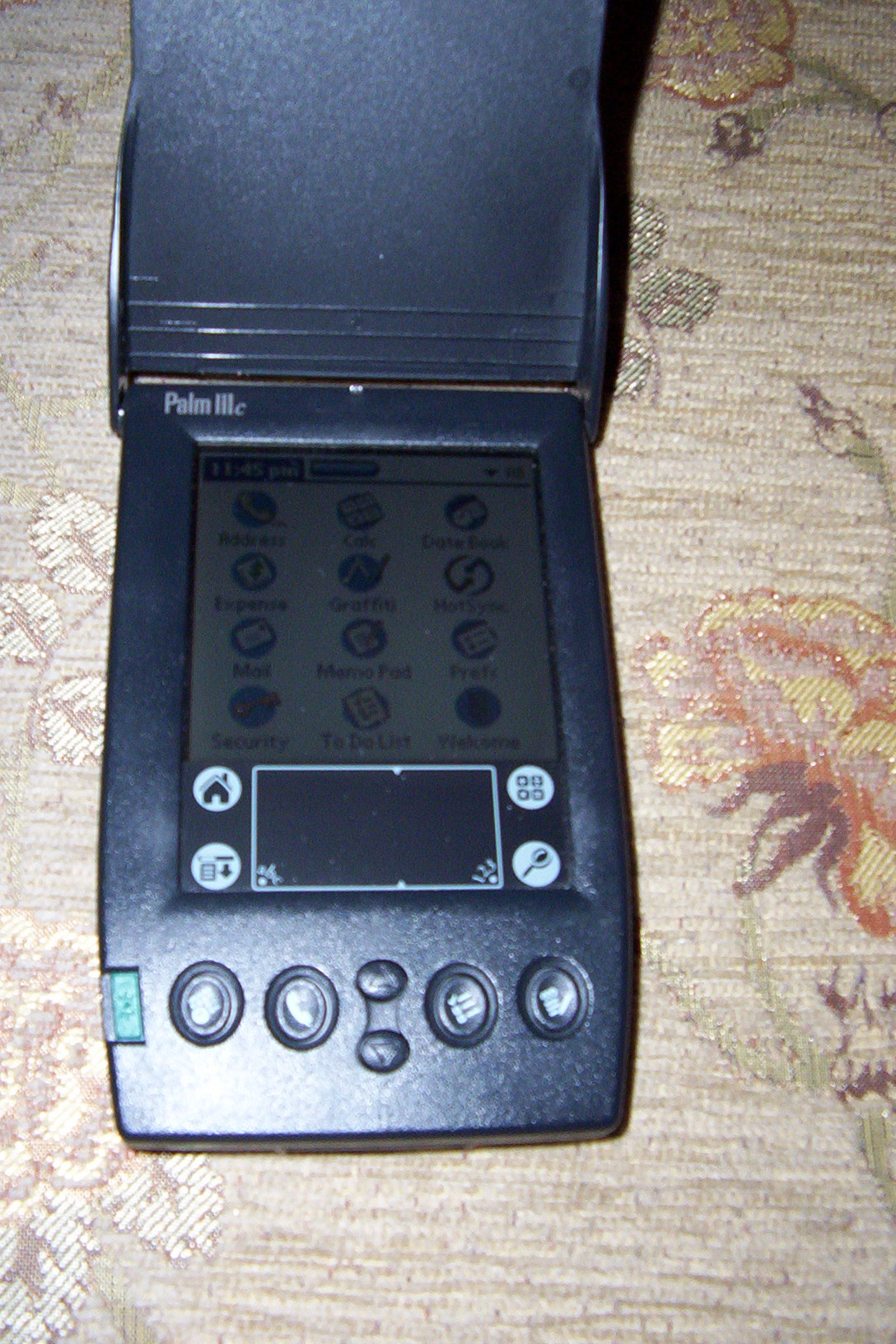 Bjorn Sundin is the photographer.